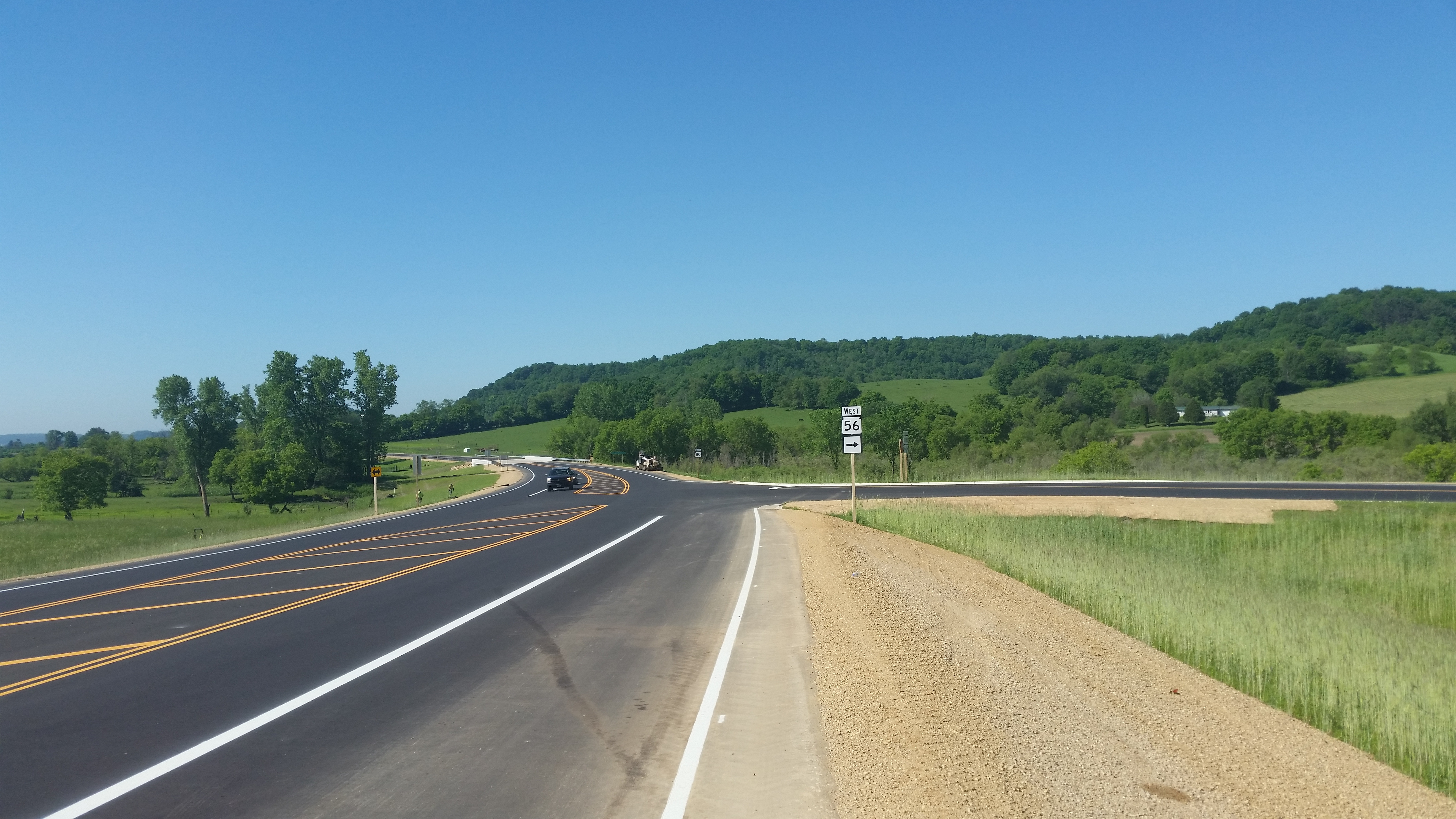 Intersection of WIS 56 & WIS 80 just north of Richland Center (eastern terminus of WIS 56). This section of road is in the final day of reconstruction. You can see the workers in the road ditch. This intersection was widened to allow turning lanes. Photo taken June 7, 2019.